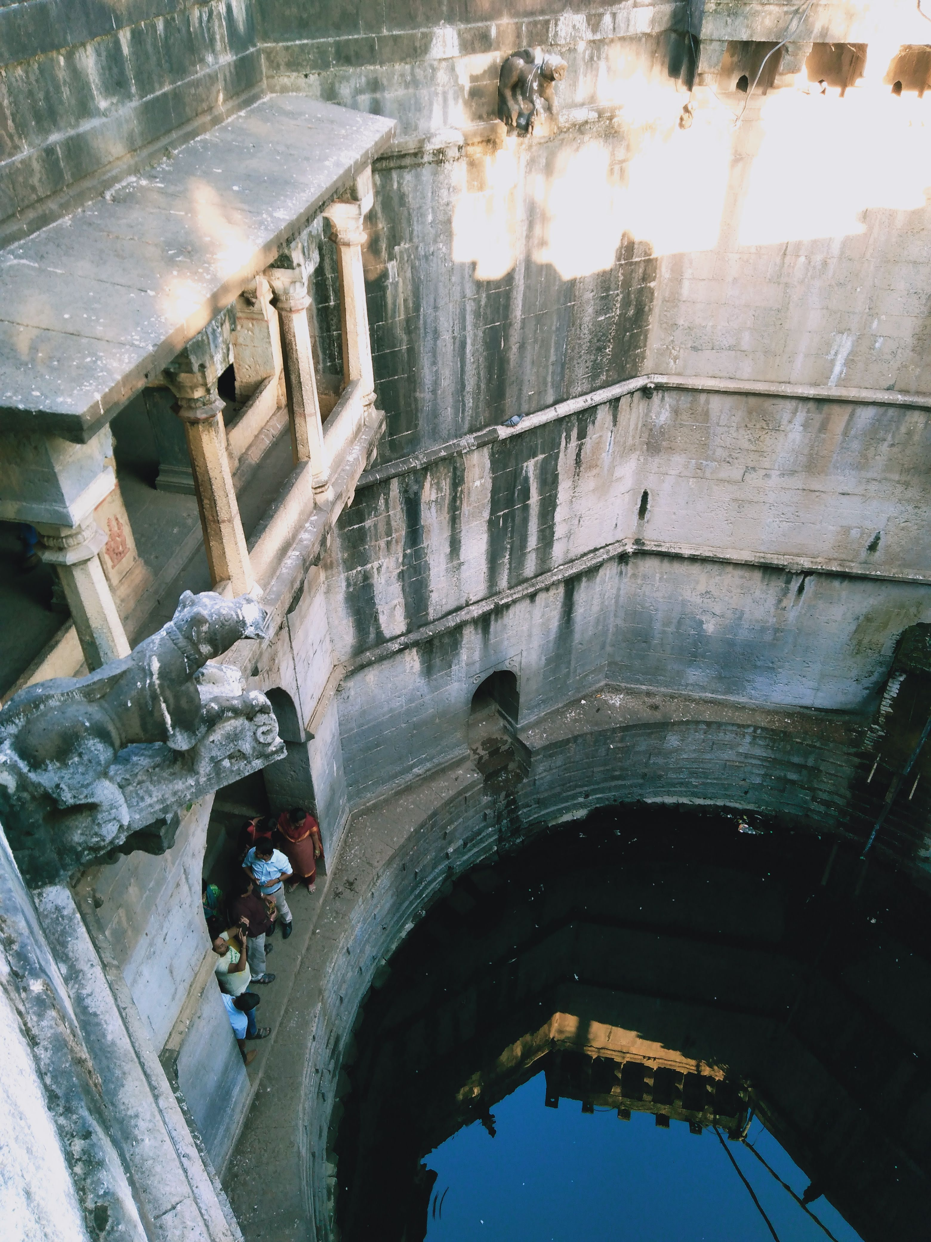 12 motachi vihir